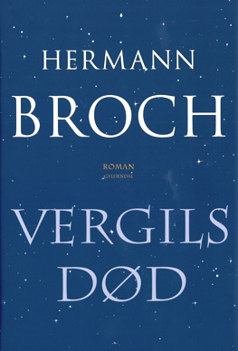 Book cover of Hermann Broch "Der Tod des Vergil" (Danish edition 2006)